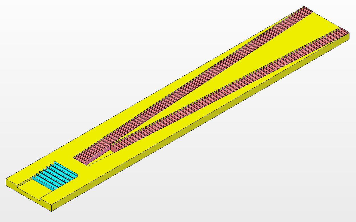 A Solidworks model of a progressive surface broach. Based on a diagram from Degarmo, E. Paul; Black, J T.; Kohser, Ronald A. (2003), Materials and Processes in Manufacturing (9th ed.), p. 639. Wiley, ISBN 0-471-65653-4.